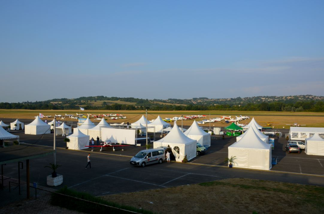 The RSA meeting at Vichy airport.